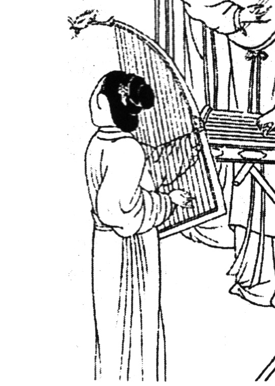 Female musician playing 14-string konghou (ancient Chinese harp). From larger ancient Chinese dynastic historical engraving (clip art) in the public domain. Full engraving at :Image:Ancientchineseinstrumentalists.jpg.